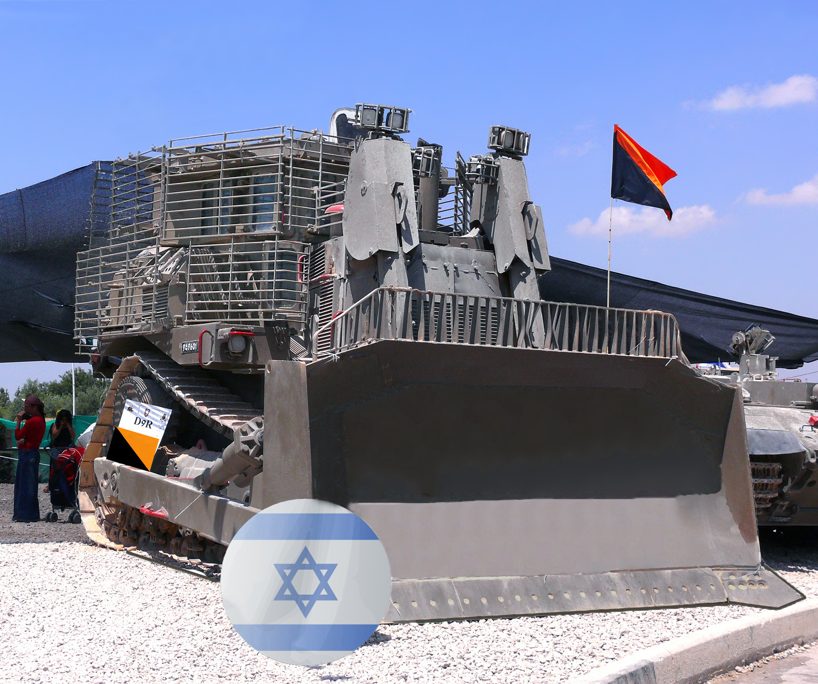 Israel Defense Forces Caterpillar D9R armored bulldozer, with add-on slat armor a.k.a cage armor, in Israel's 60th Independence Day (Israel) Edited by Zachi Evenor and MathKnight. Flag roundel by User:MT0 from the Hebrew Wikipedia